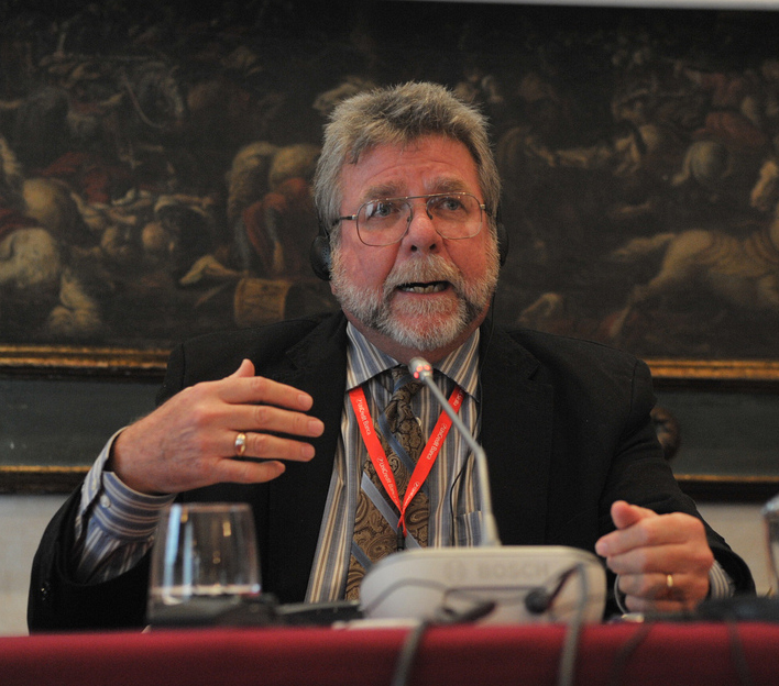 Steve Doig